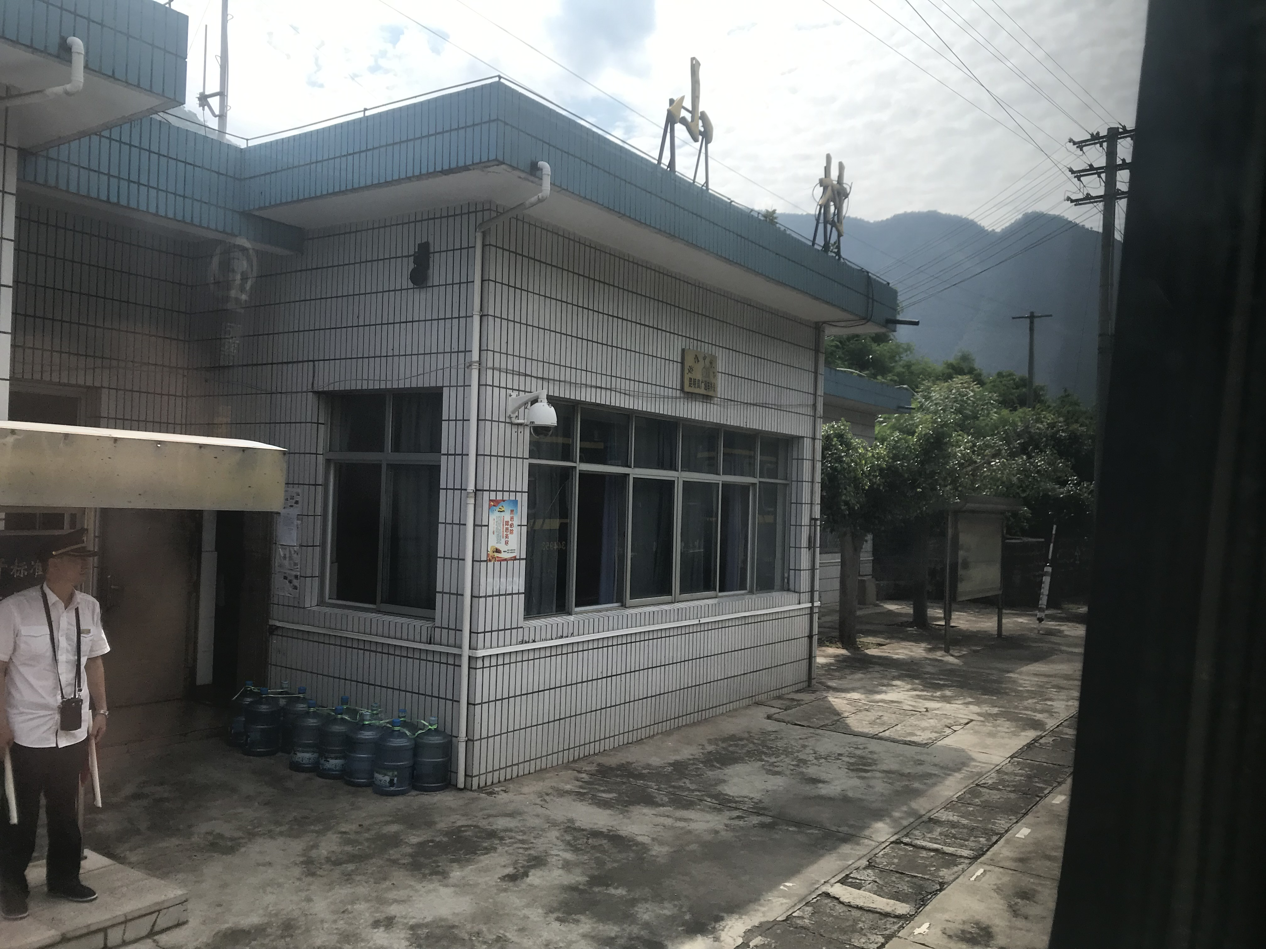 201908 Station Building of Xiaocun